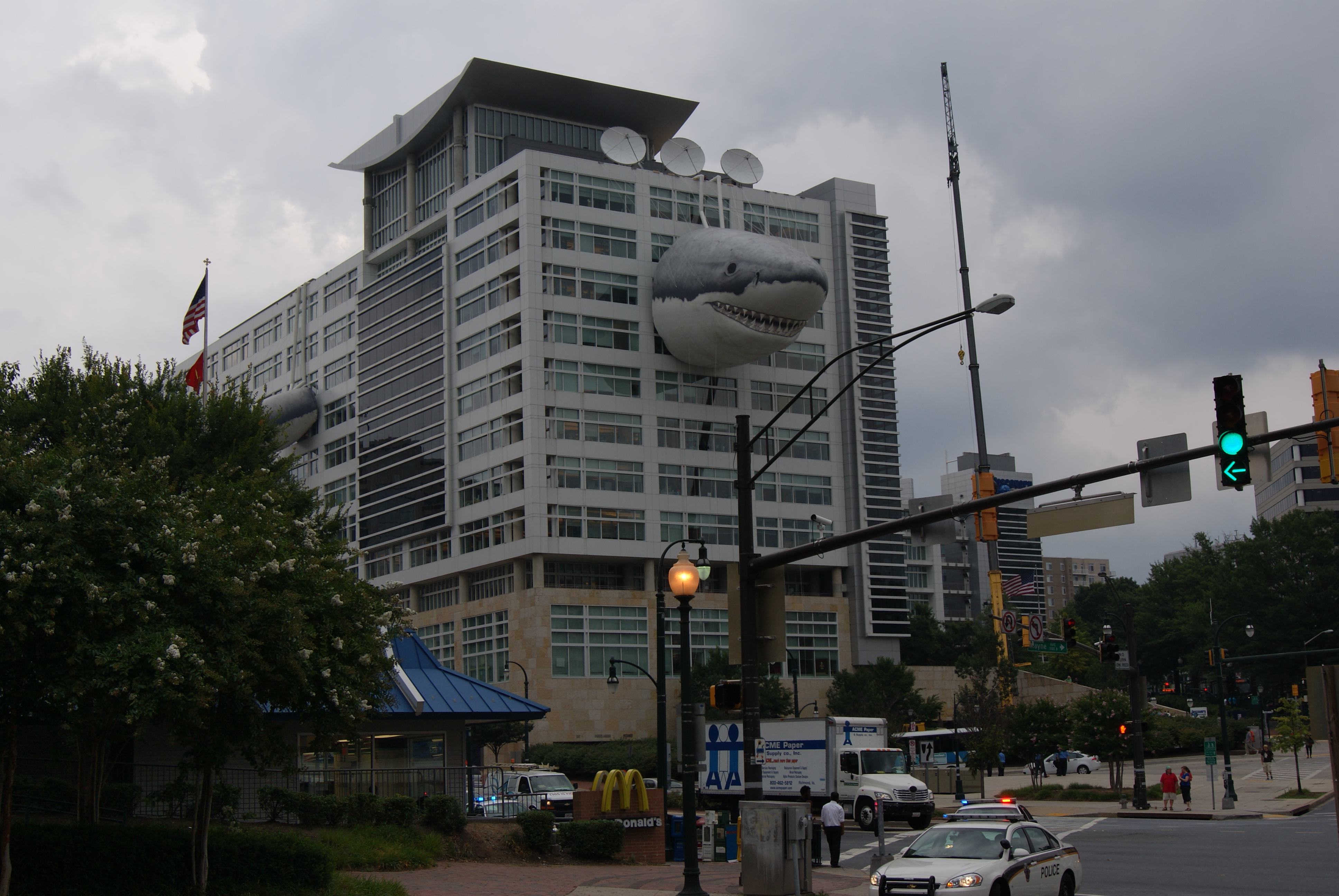 Photo of the Discovery Channel Headquarters in Silver Spring decorated with a fake shark as part of Shark Week. Taken July 12, 2010.